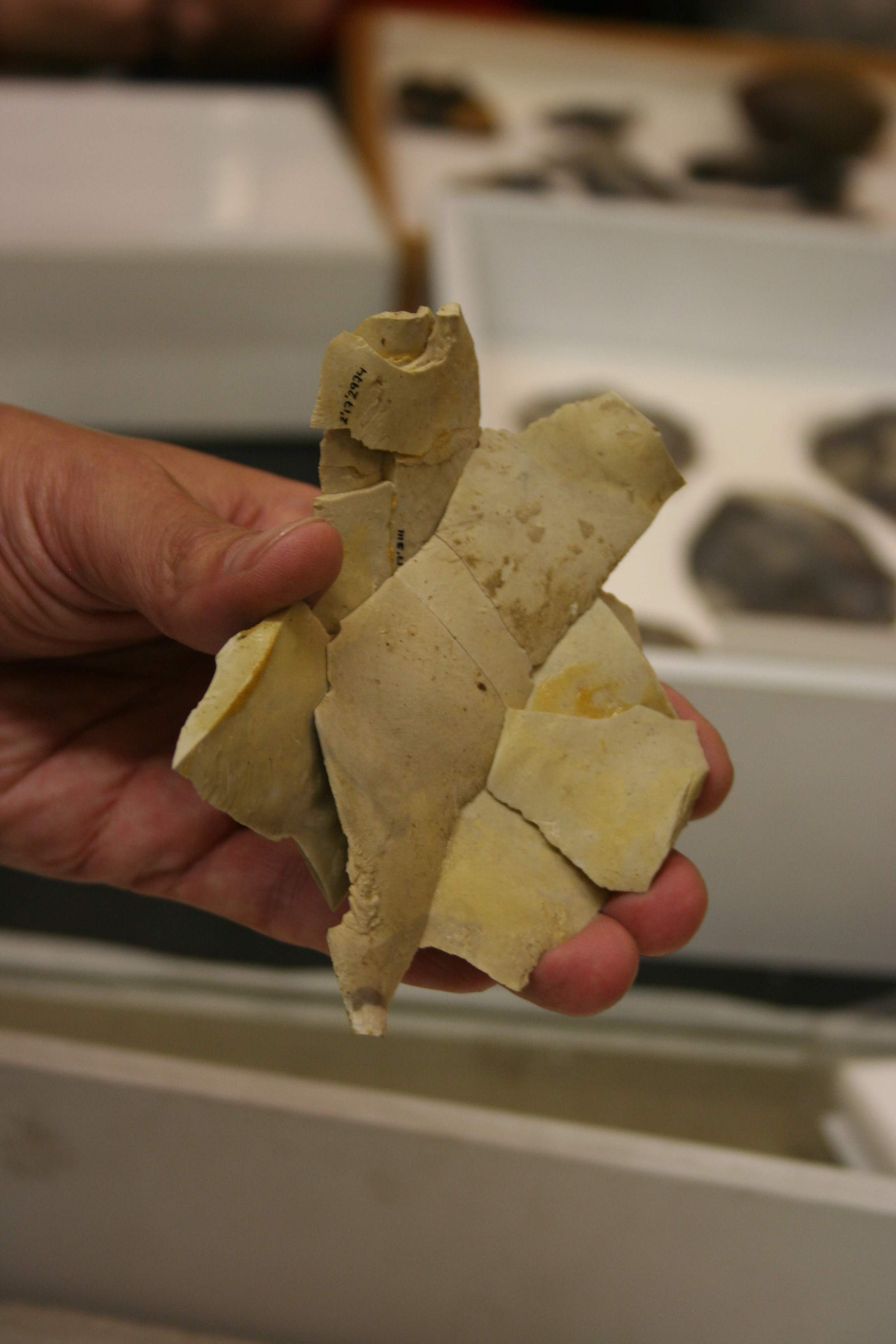 Discarded flints from crafting a hand axe.